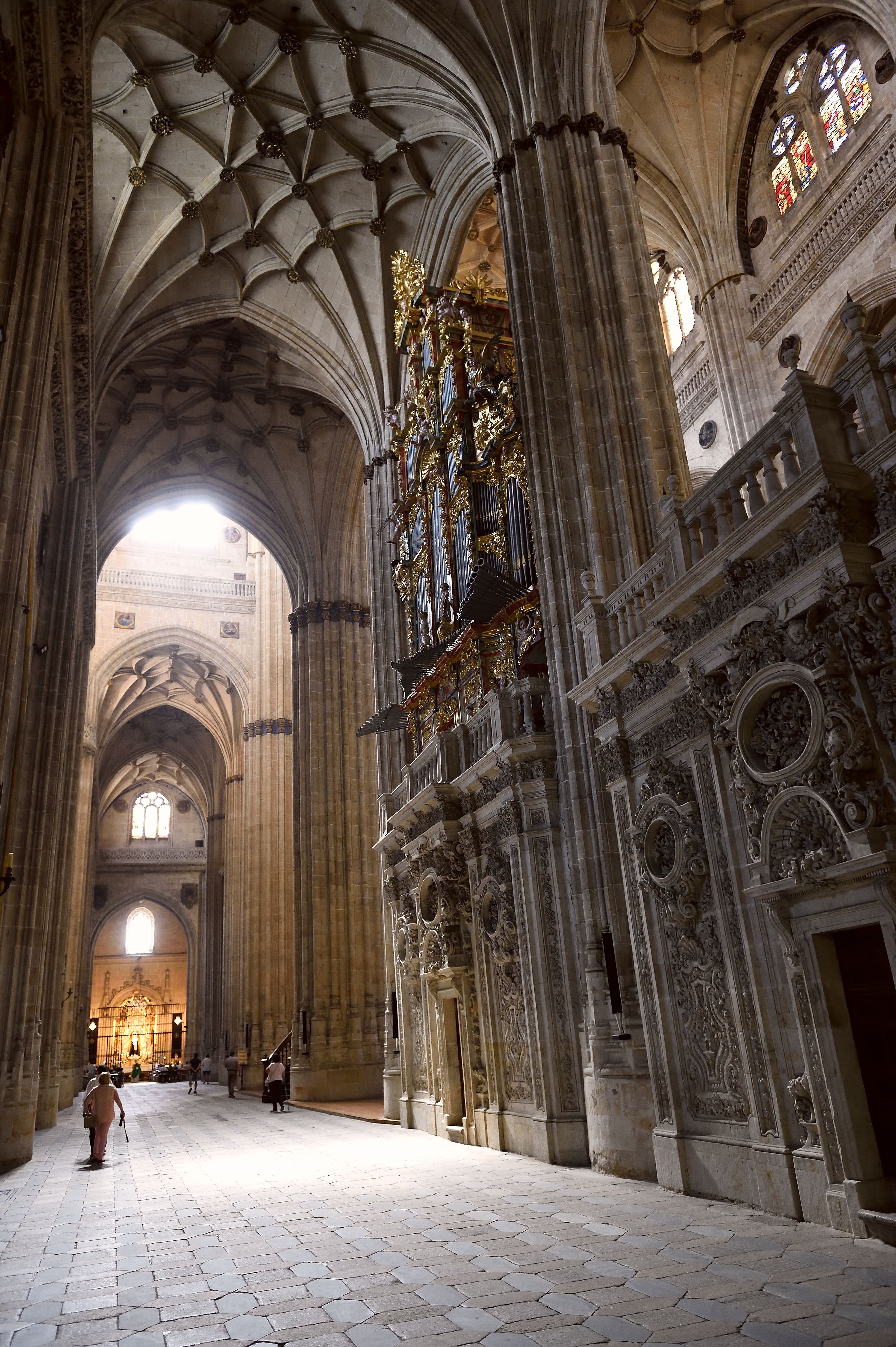 Inside the New Cathedral in Salamanca, Spain